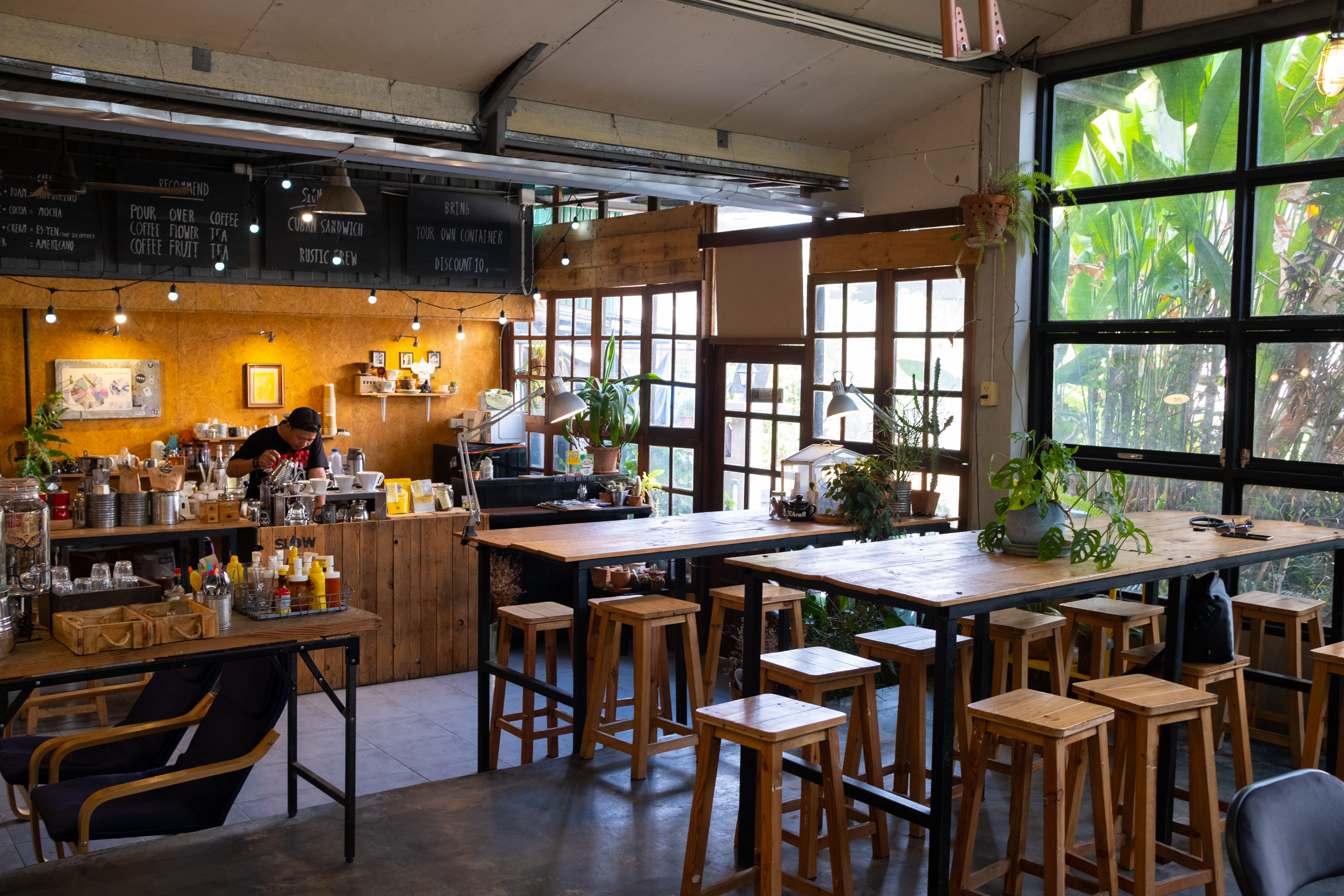 Rustic Barista Specialty Coffee in Korat